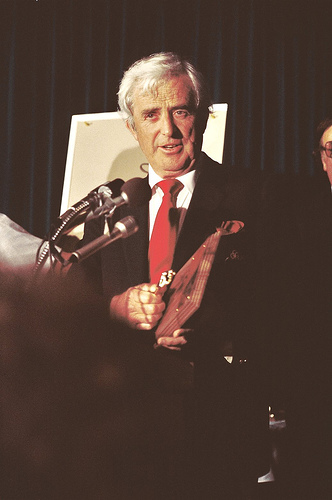 "Dennis The Menace" creator Hank Ketcham (1920-2001) accepts his Inkpot Award at the 1982 San Diego Comic Con (today called Comic-Con International).